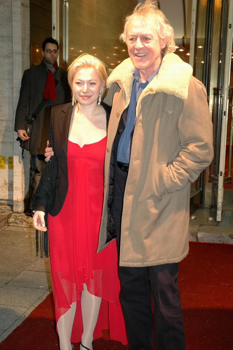 Swedish actress Frida Hallgren and Swedish filmdirector Kay Pollak in Berlin 2005.